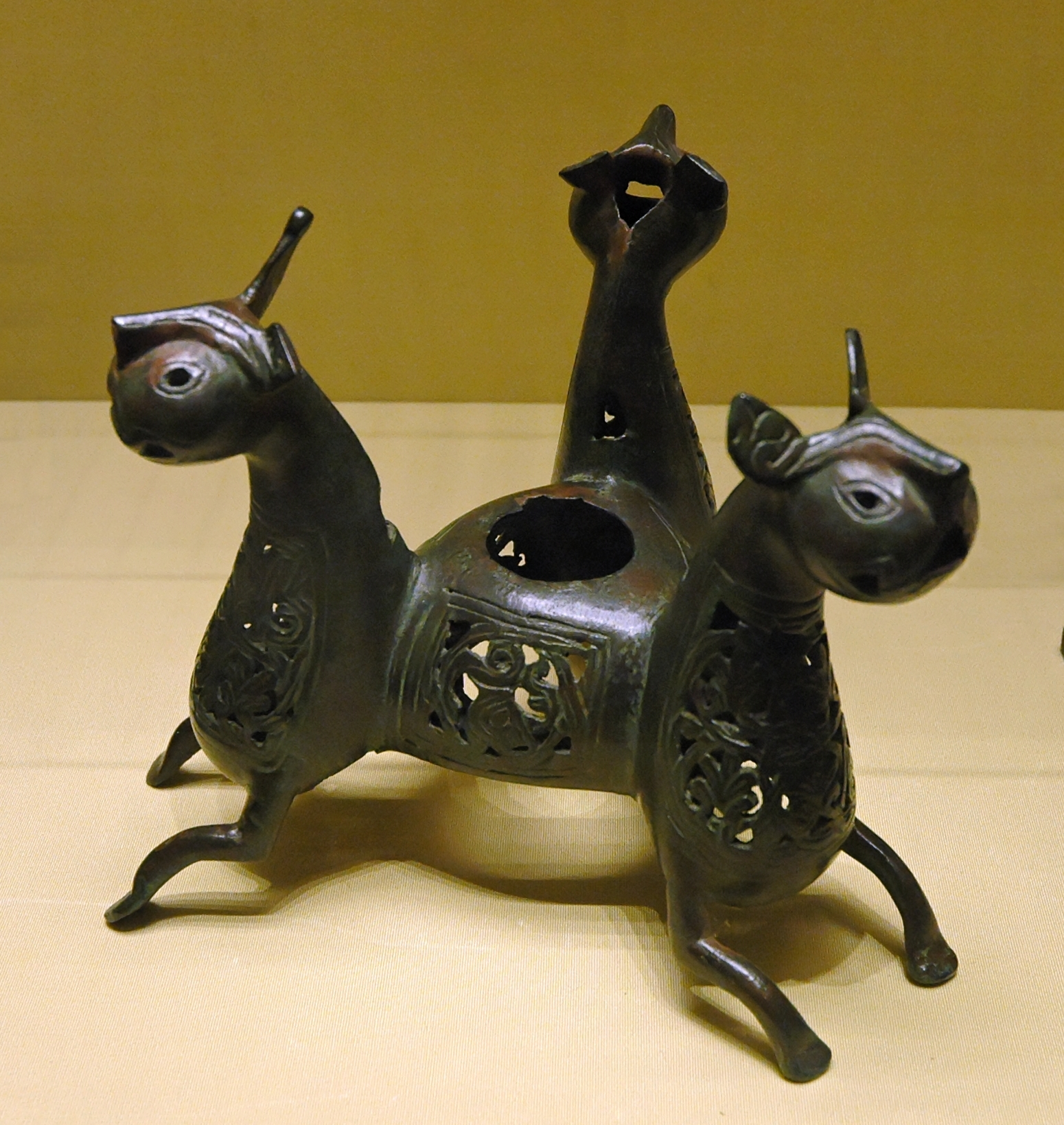 Candlestick with lion protomes.